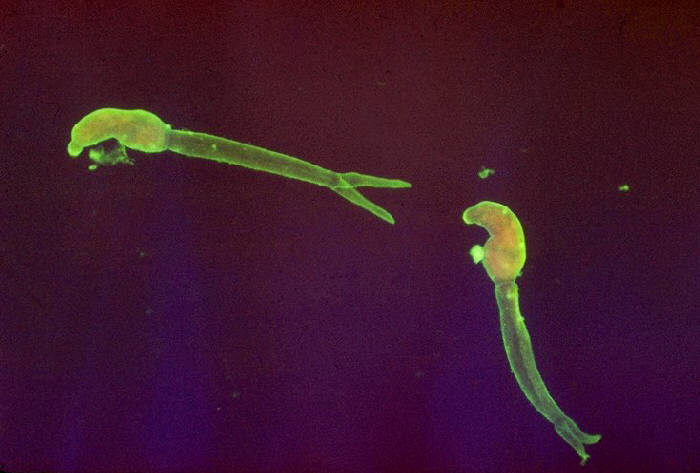 Cercariae of Schistosoma mansoni. Indirect fluorescent antibody stain. Parasite.